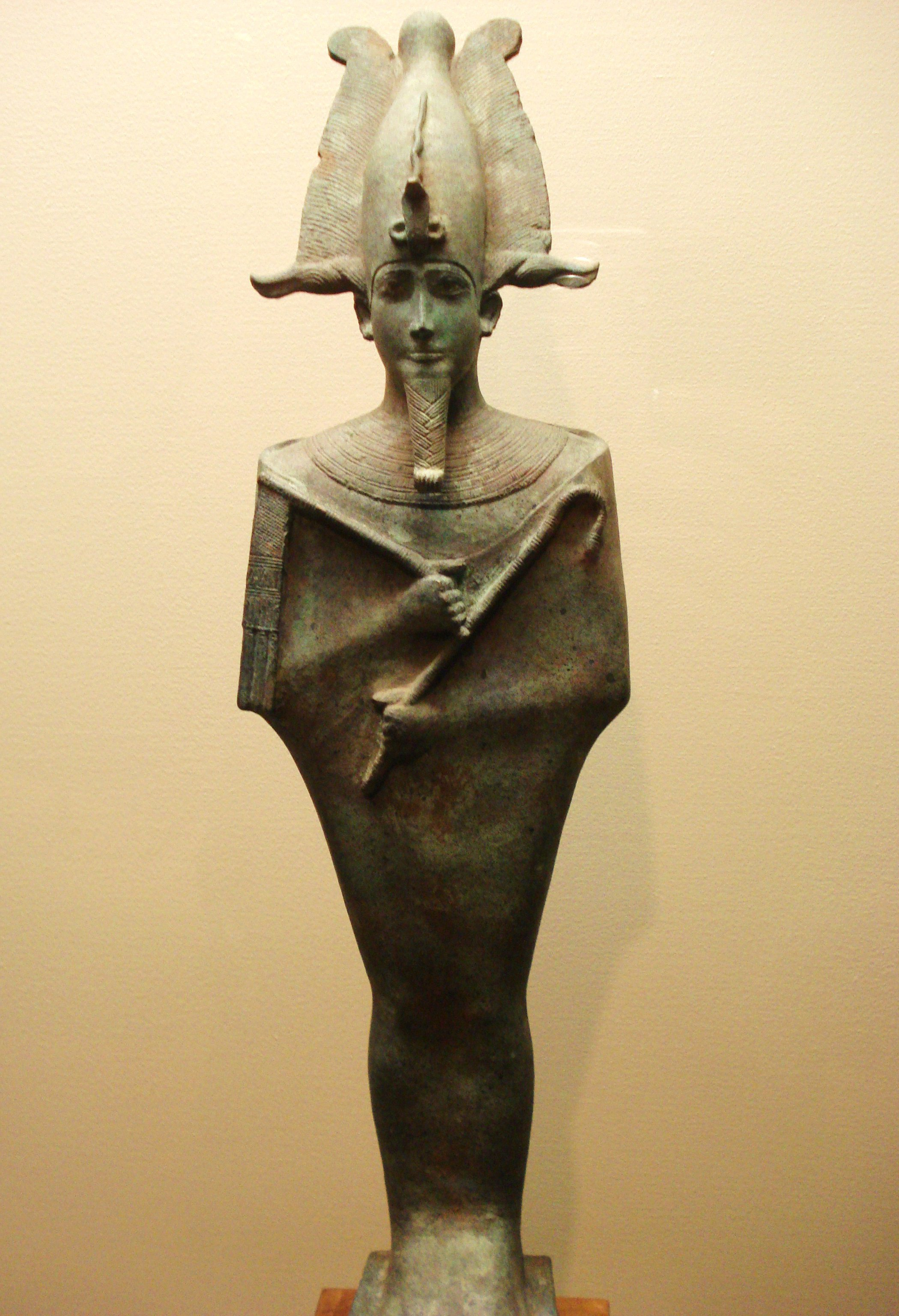 Bronze figurine of Egyptian god Osiris. Belongs to the Late Period and Greco-Roman Period (664 BC-642 CE). University of Pennsylvania Museum of Archeology and Anthropology exhibit. Osiris is depicted with a "crook" and a flail and in a partly mummified form. The Greco-Roman influence in the structure of this statuette is noteworthy. Egyptians believe Osiris to be the king of the underworld and the supreme judge of the afterlife. Osiris, according to myth, is dismembered and murdered by his brother Seth but is brought back to life by his sister-wife Isis. Horus is the son of Isis and Osiris. Being the god of afterlife and resurrection, Osiris is also worshiped as a fertility deity.